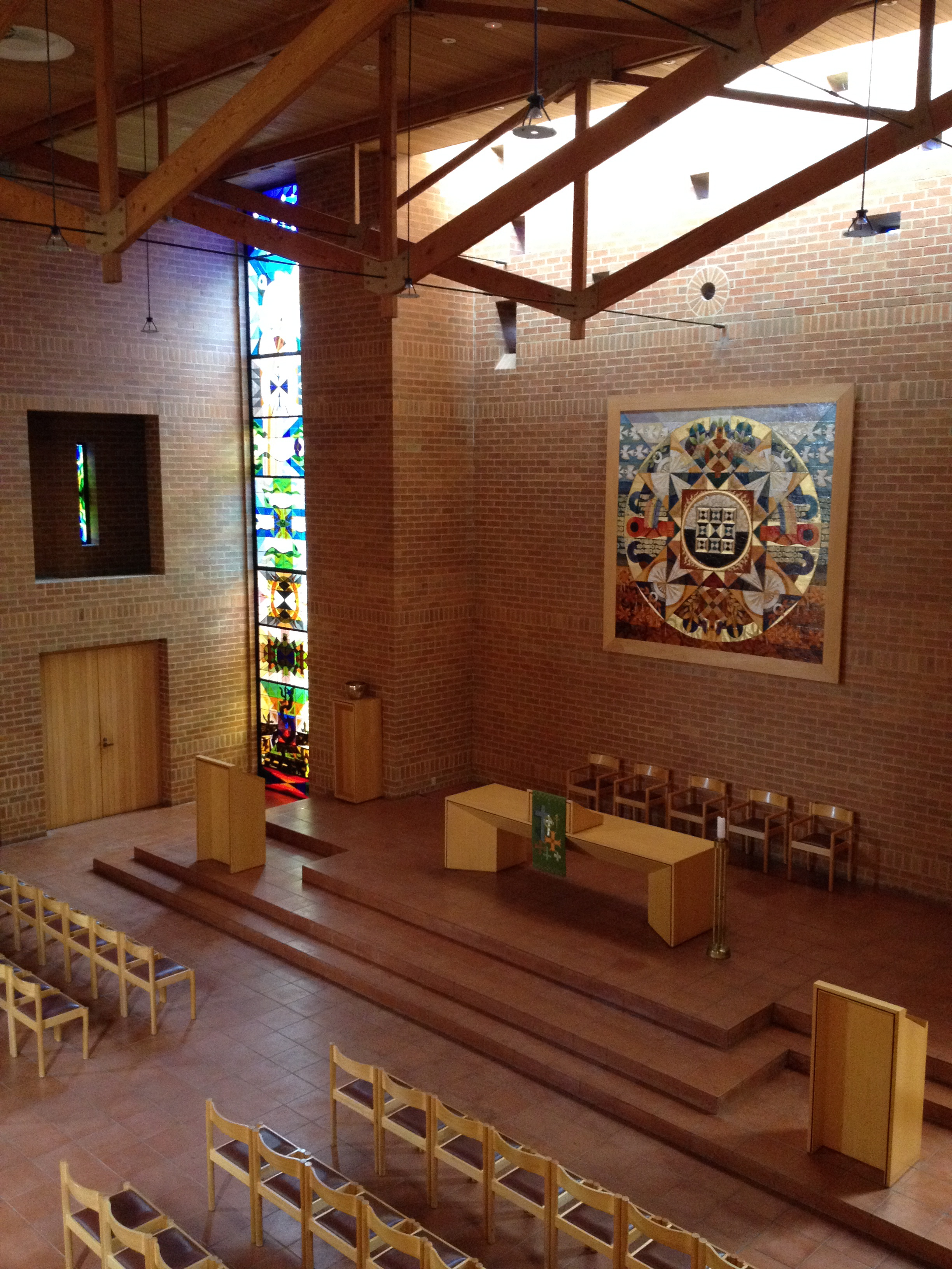 Haileybury Chapel Sanctuary looking across